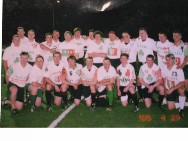 Fr. Tuith, Fordham University, public picture,not online